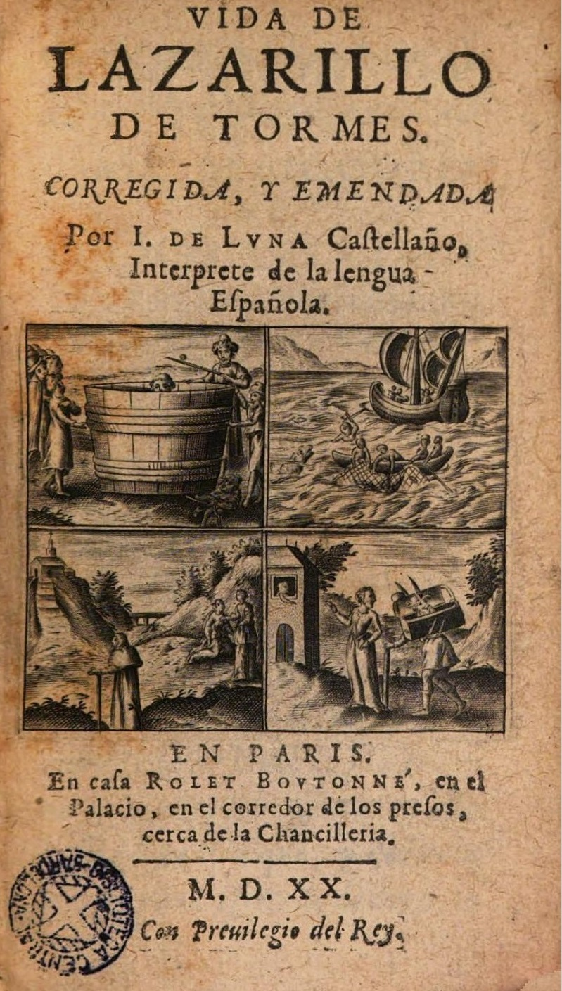 The 1520 (i.e.1620) Spanish edition of Vida de Lazarillo de Tormes published in Paris.